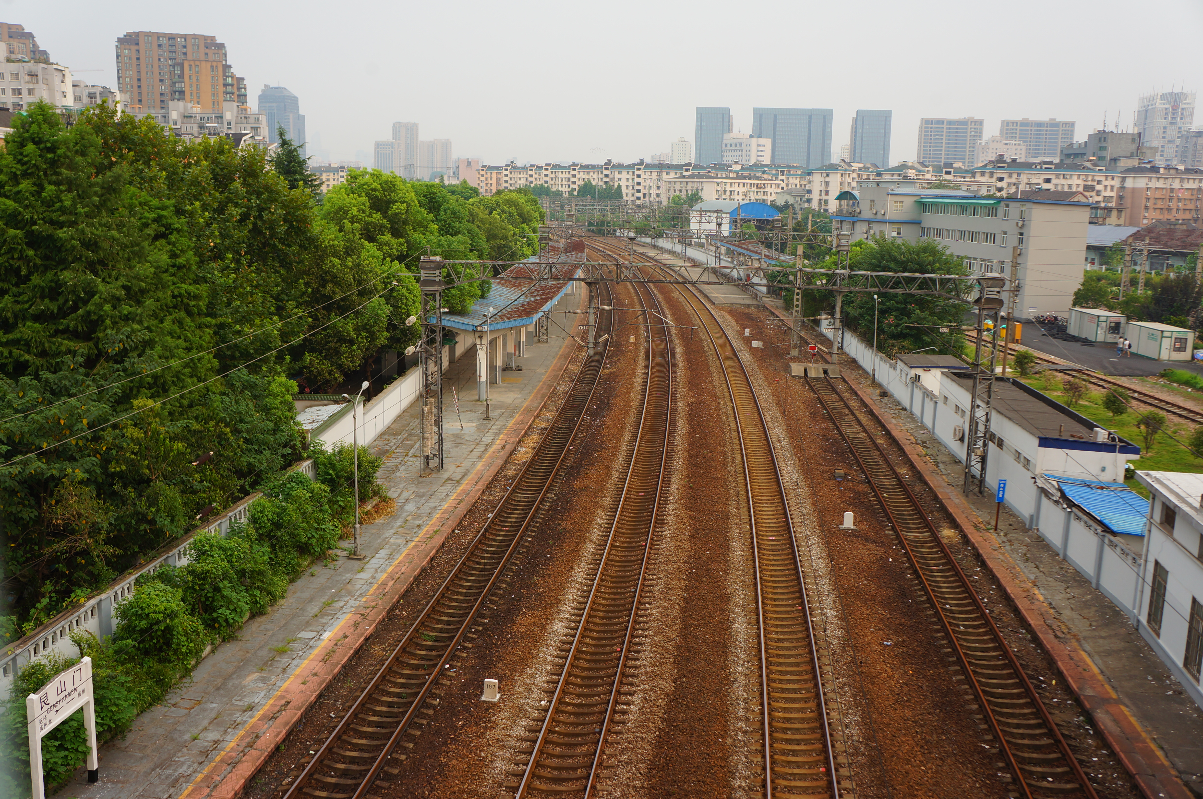 201607 Genshanmen Railway Station. Upload this file in case there isn't any proper substitute image for header-template after the termination of Z9/10 and T31/32 service.